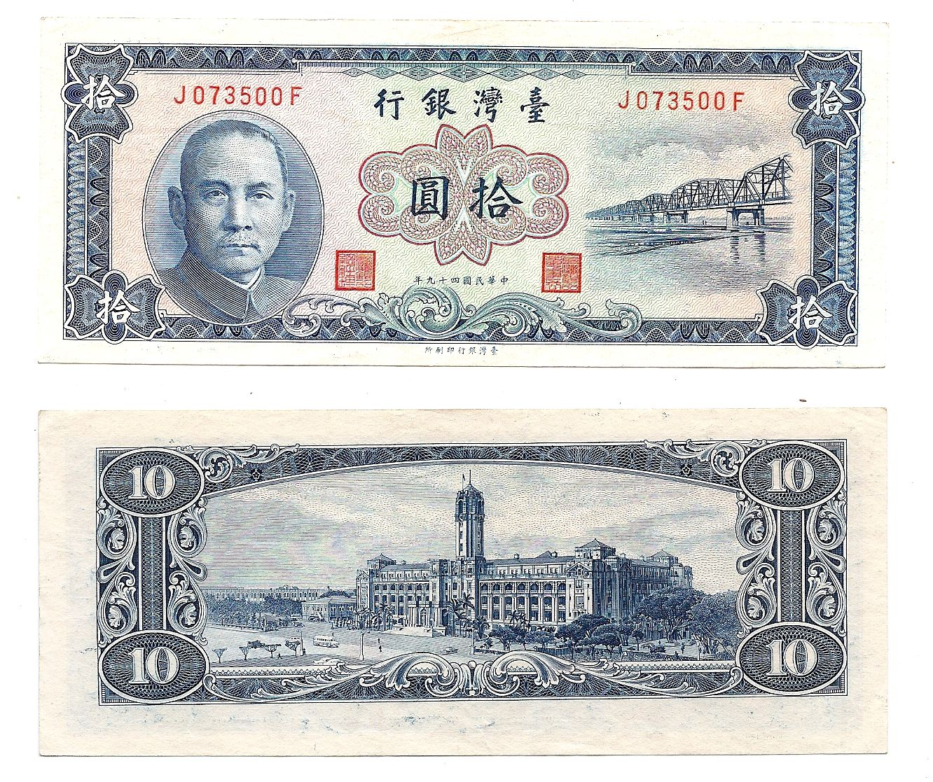 Taiwan, China, 10 Yüan 1960 UNC Banknote. Dr Sun Yat-sen, 1866 Xiangshan, Guangdong, China - 1925 Beijing Portrait at l. , bridge at r. / Building with tower. Pick 1969. Condition: Very nice almost UNCIRCULATED